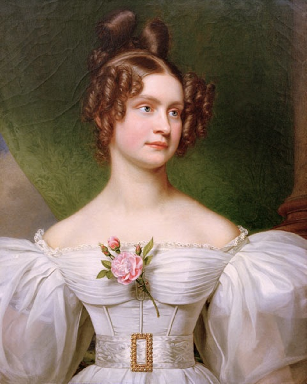 Mathilde von Hessen (1813-1862)